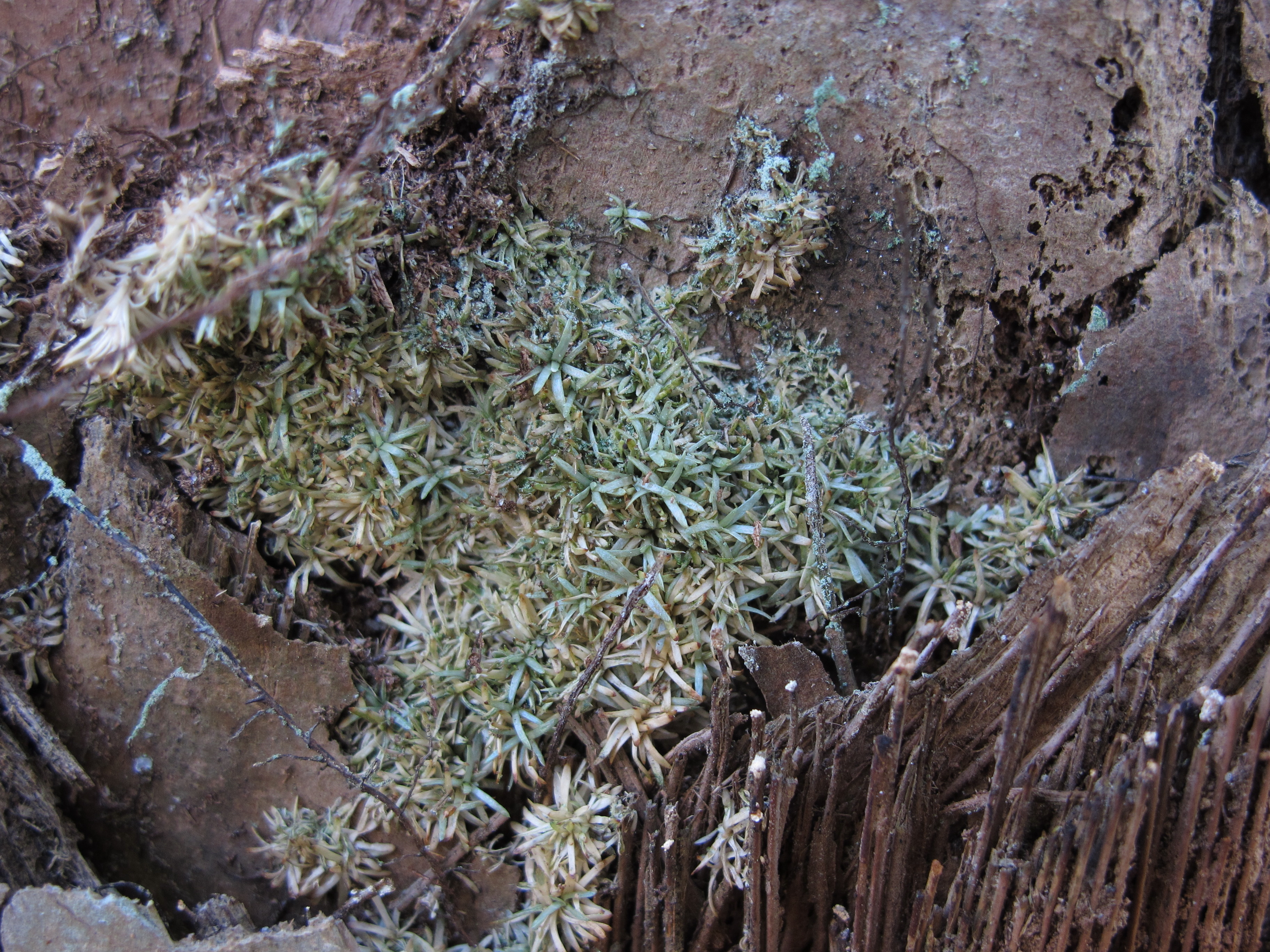 on the trunk of Sabal palmetto, Florida International University, Miami, Florida, USA.